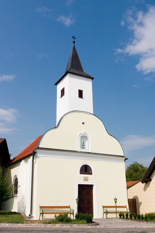 The church in Raipoltenbach, municipality of Neulengbach